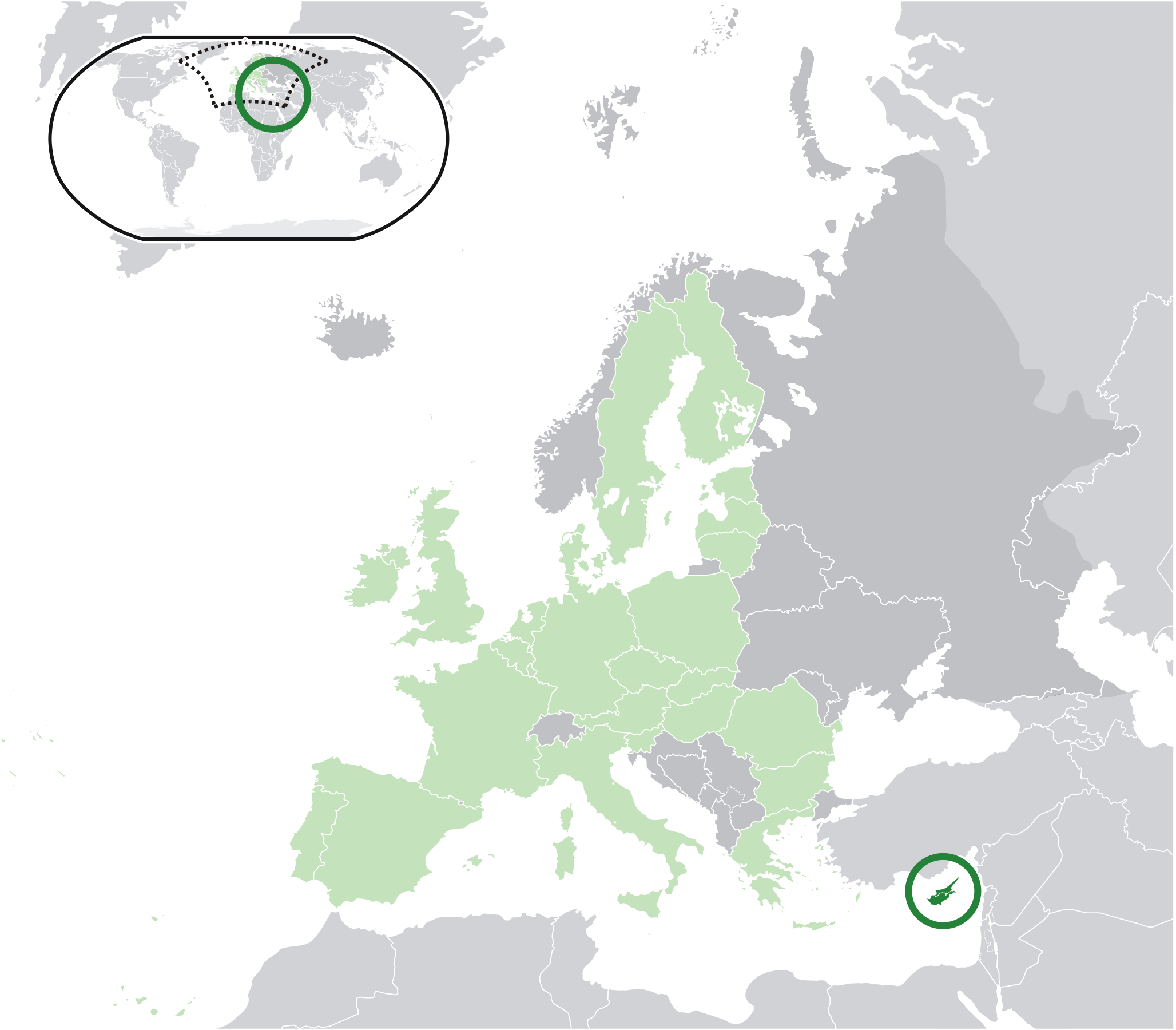 Cyprus (dark green) / European Union (green) / Europe (gren + dark grey); inspired by and consistent with general country locator maps by User:Vardion, et al